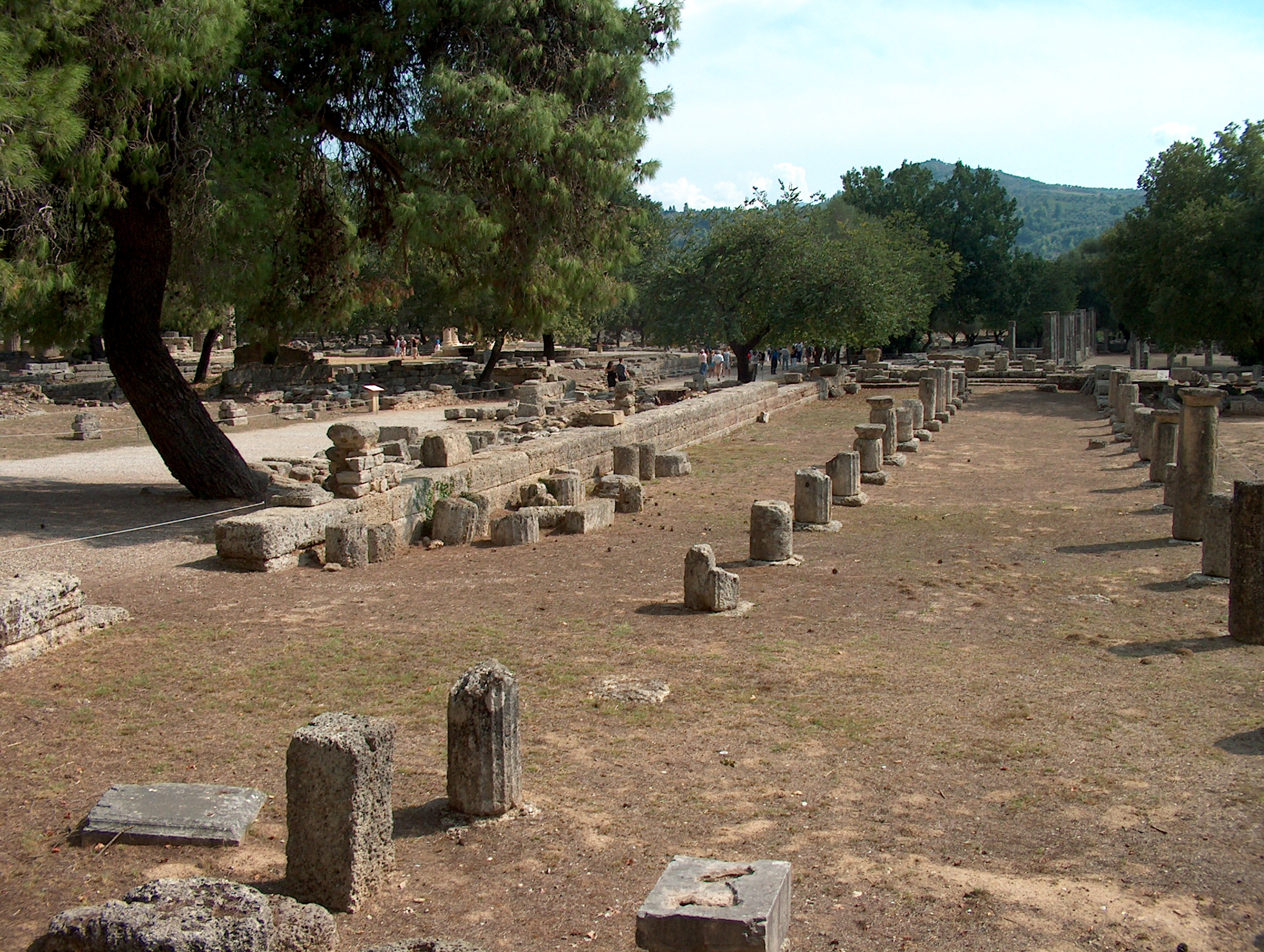 Ancient Olympia. Despite the file name, not from the stadium of Olympia.